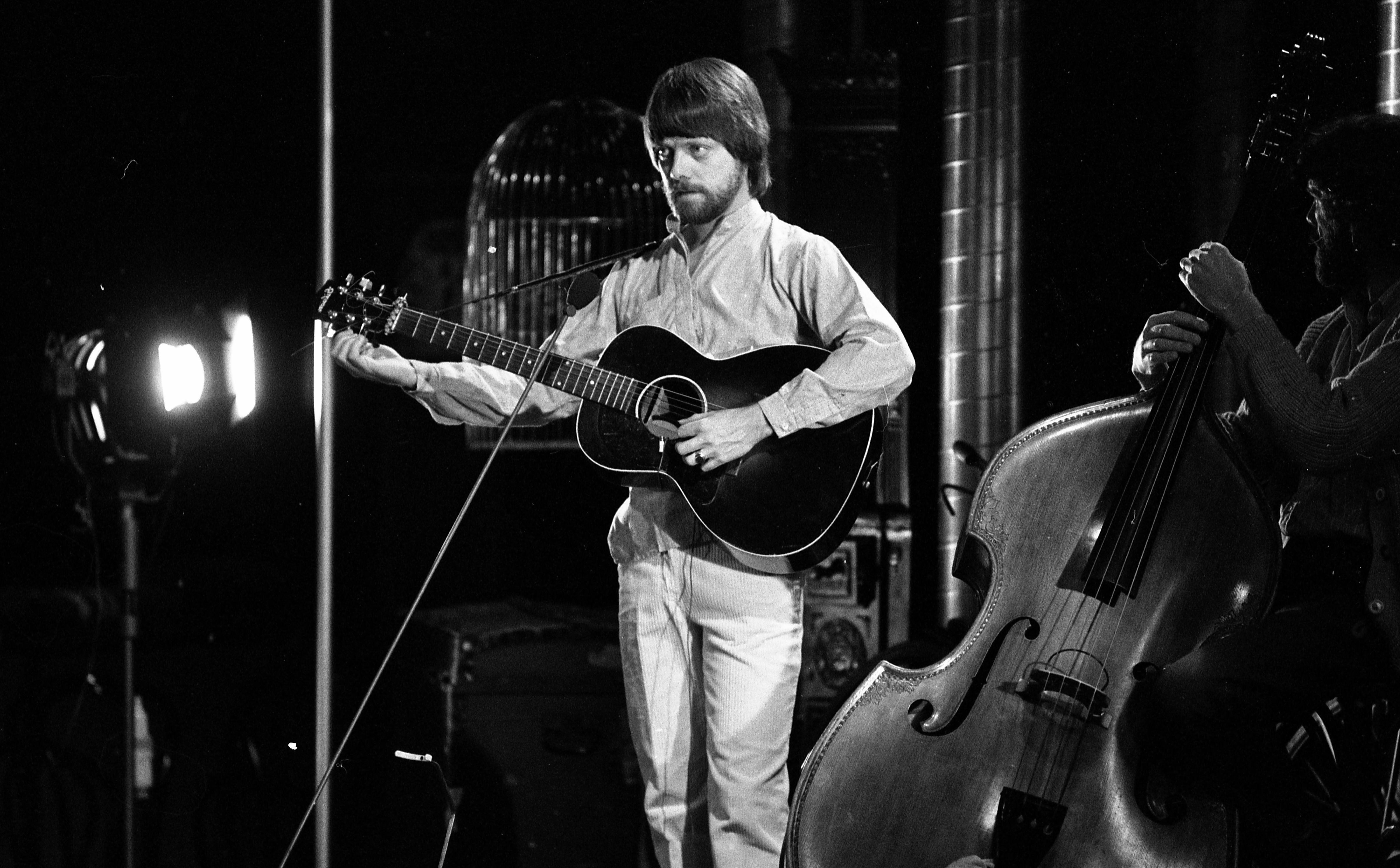 1982. Foto: Trygve Indrelid Arkivref.: PA-0797_U_11057_001_015